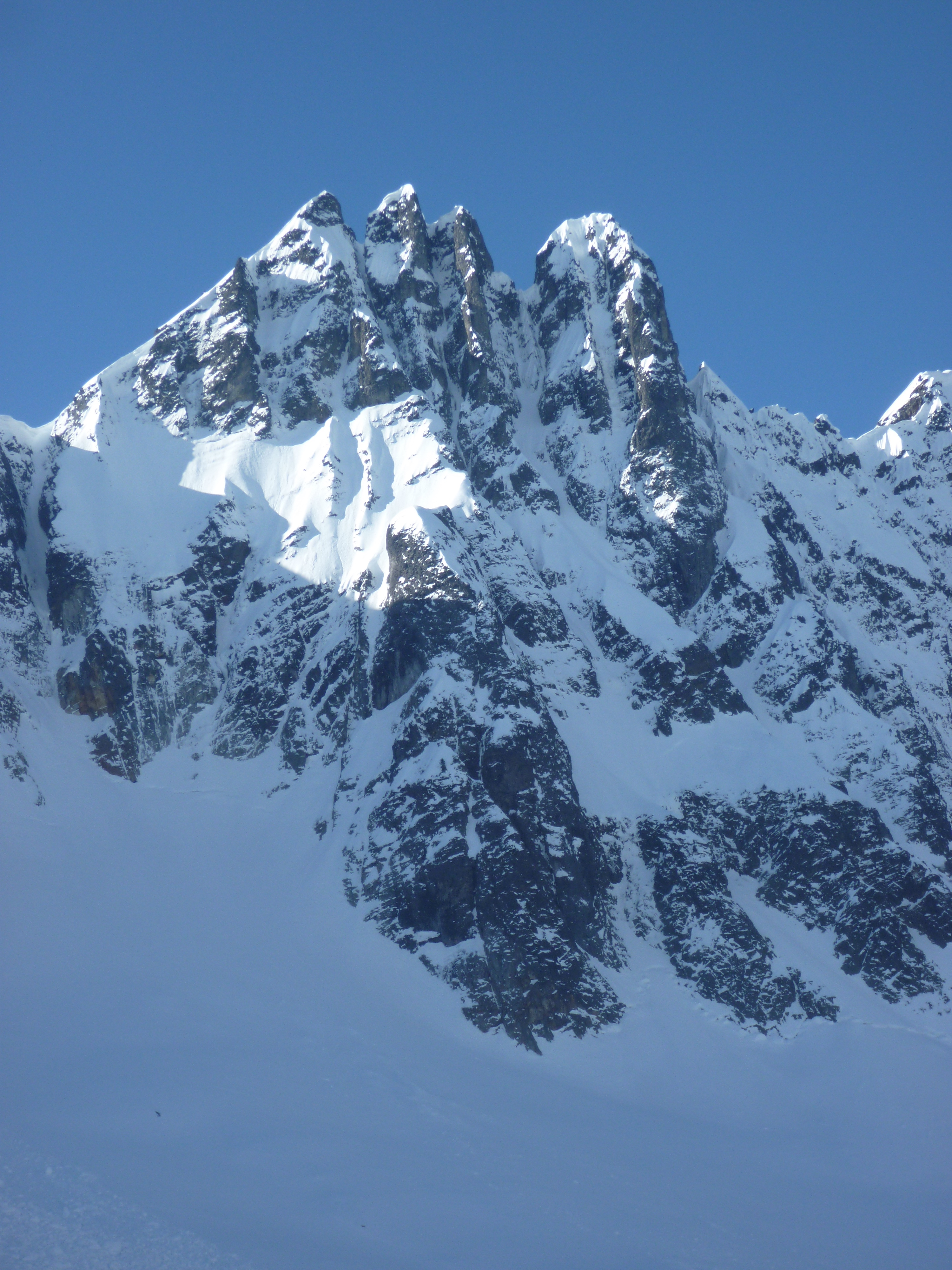 The Triplets in winter. North Cascades National Park